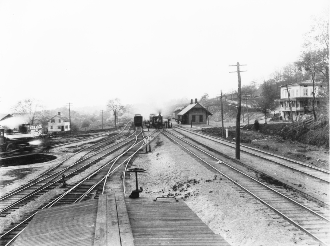 Brookfield Junction, as seen in the 1890s. Located in Brookfield, Connecticut.